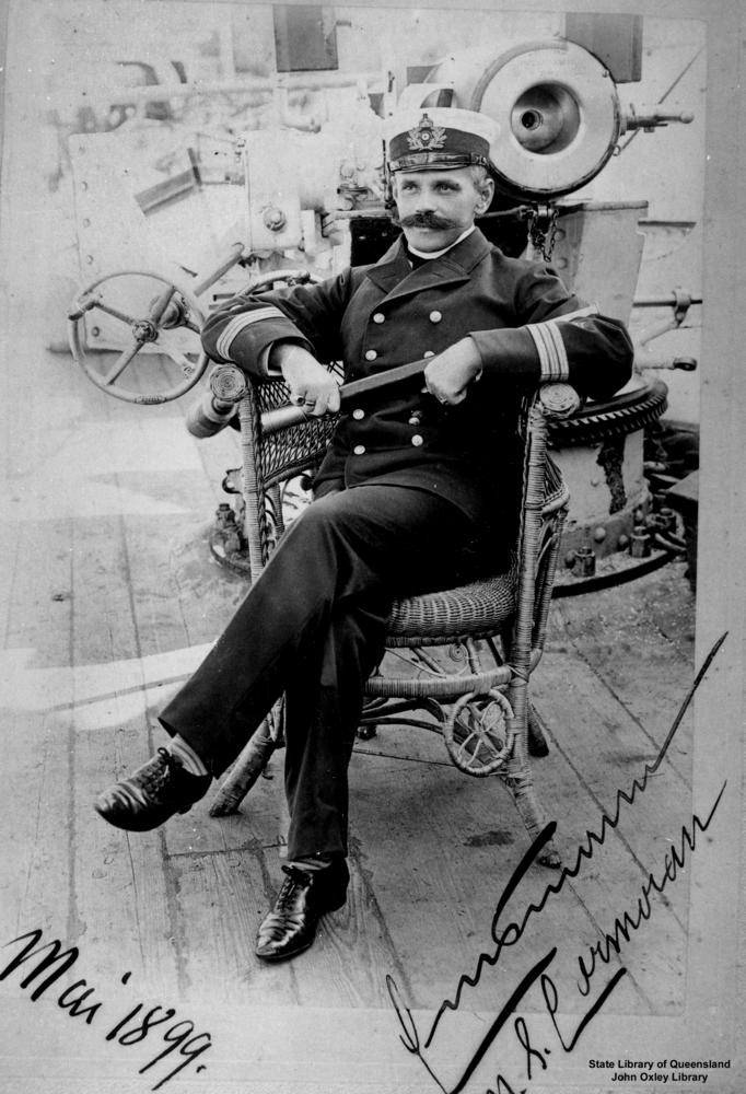 Captain H. Emsmann from the 'Cormoran' posing on a cane chair on the deck of the ship in May 1899.